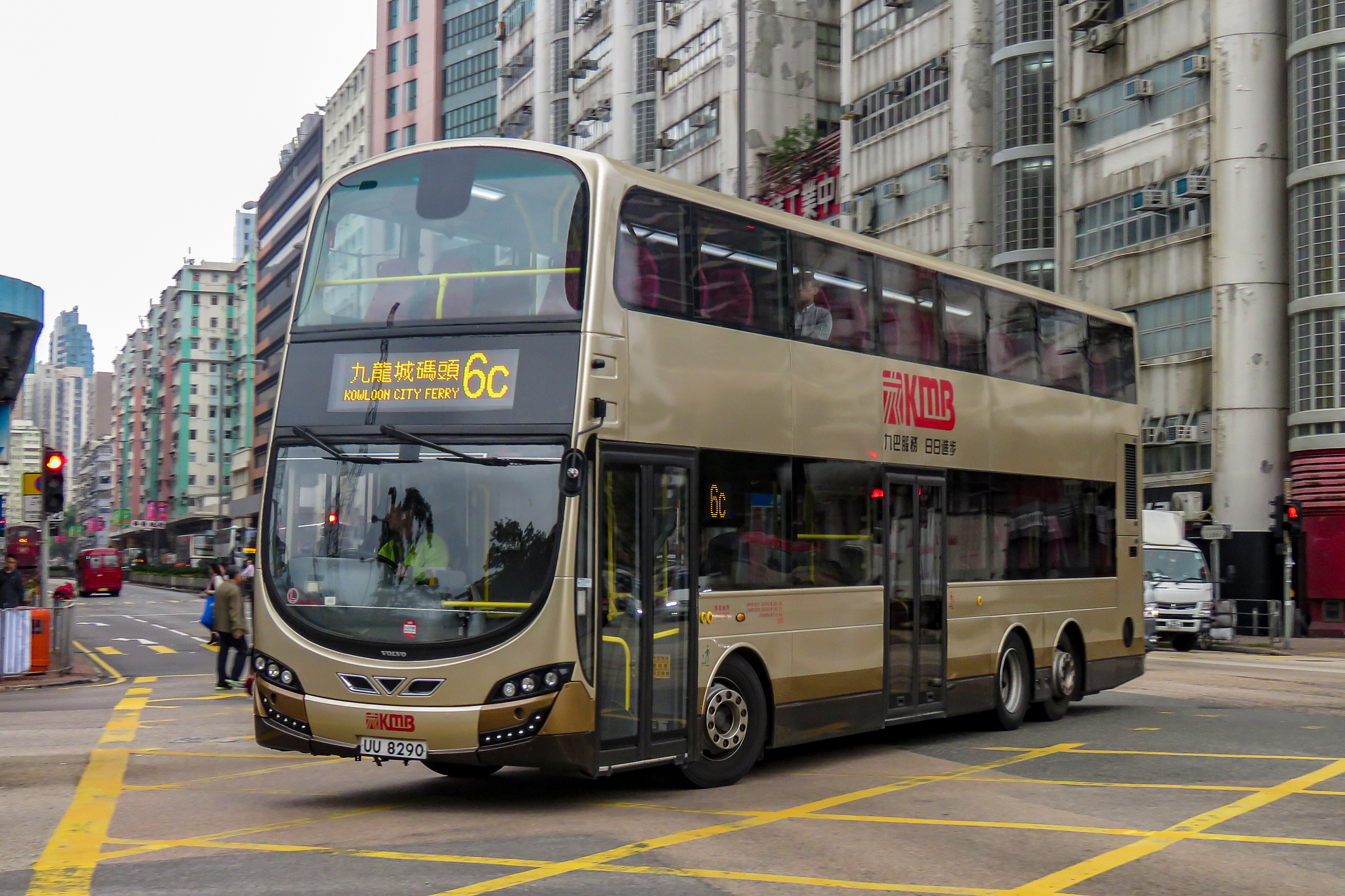 Emmm, a golden egg without advertisement... well, UU8290! Later, the driver, who realized I was spotting this B8L, asked me how the photograph looks.